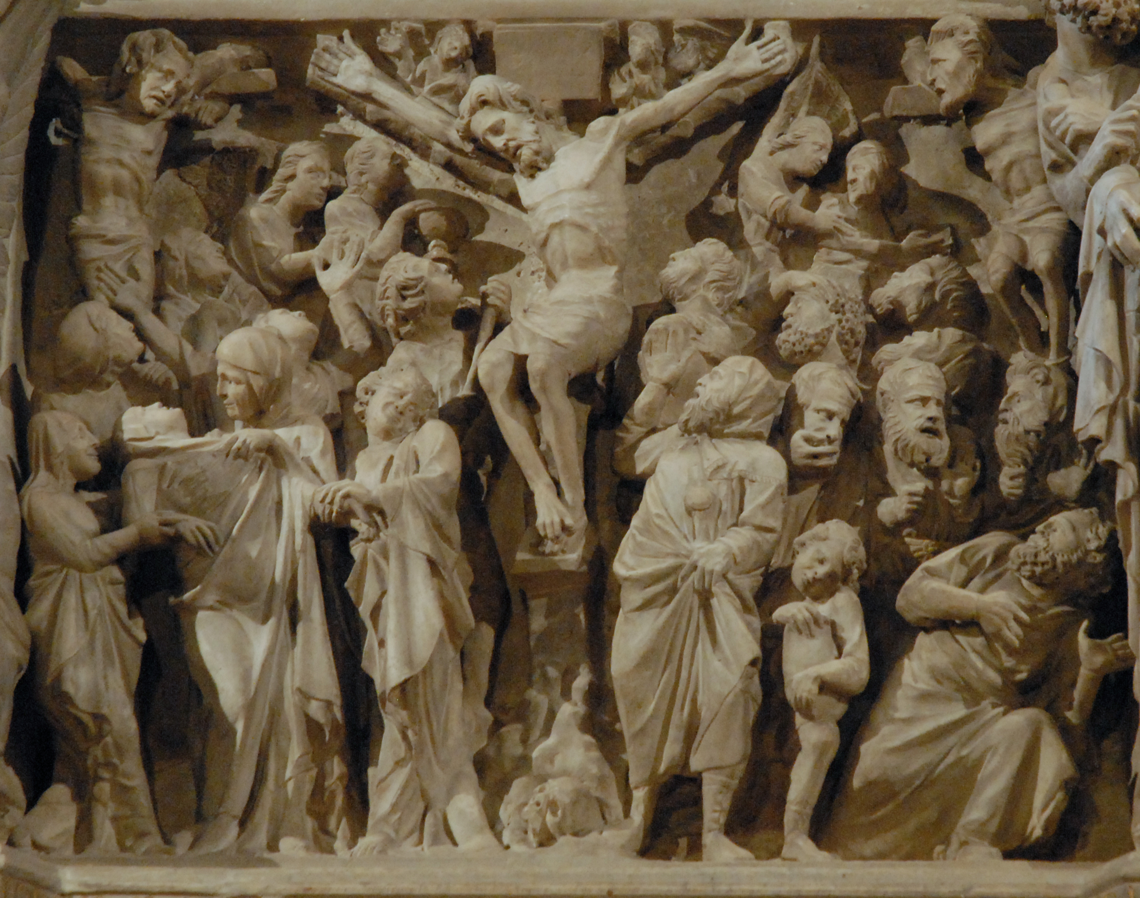 The Crucifixion from the Pulpit of Sant' Andrea, Pistoia, by Giovanni Pisano